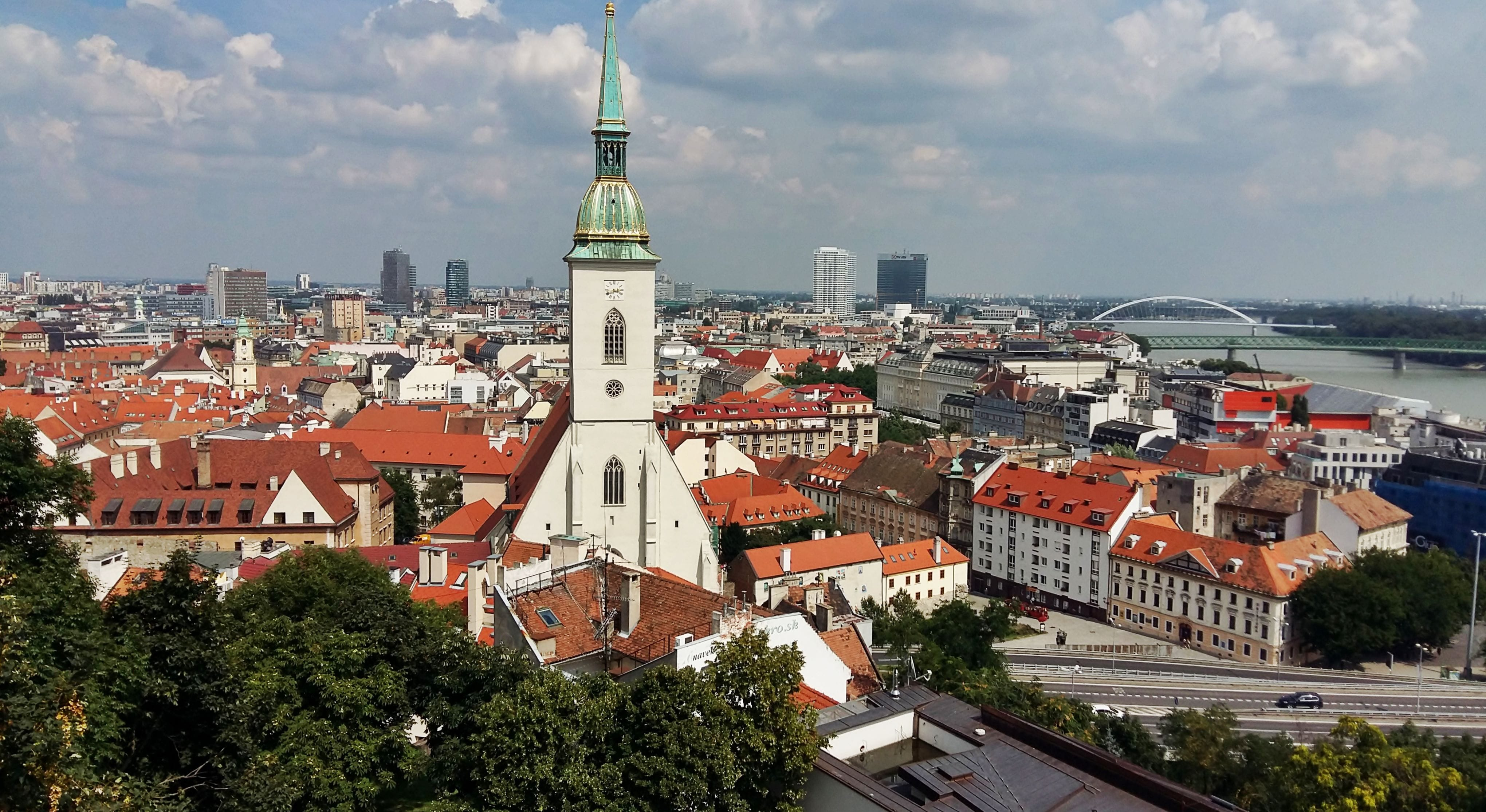 Bratislava Cityscape, Slovakia